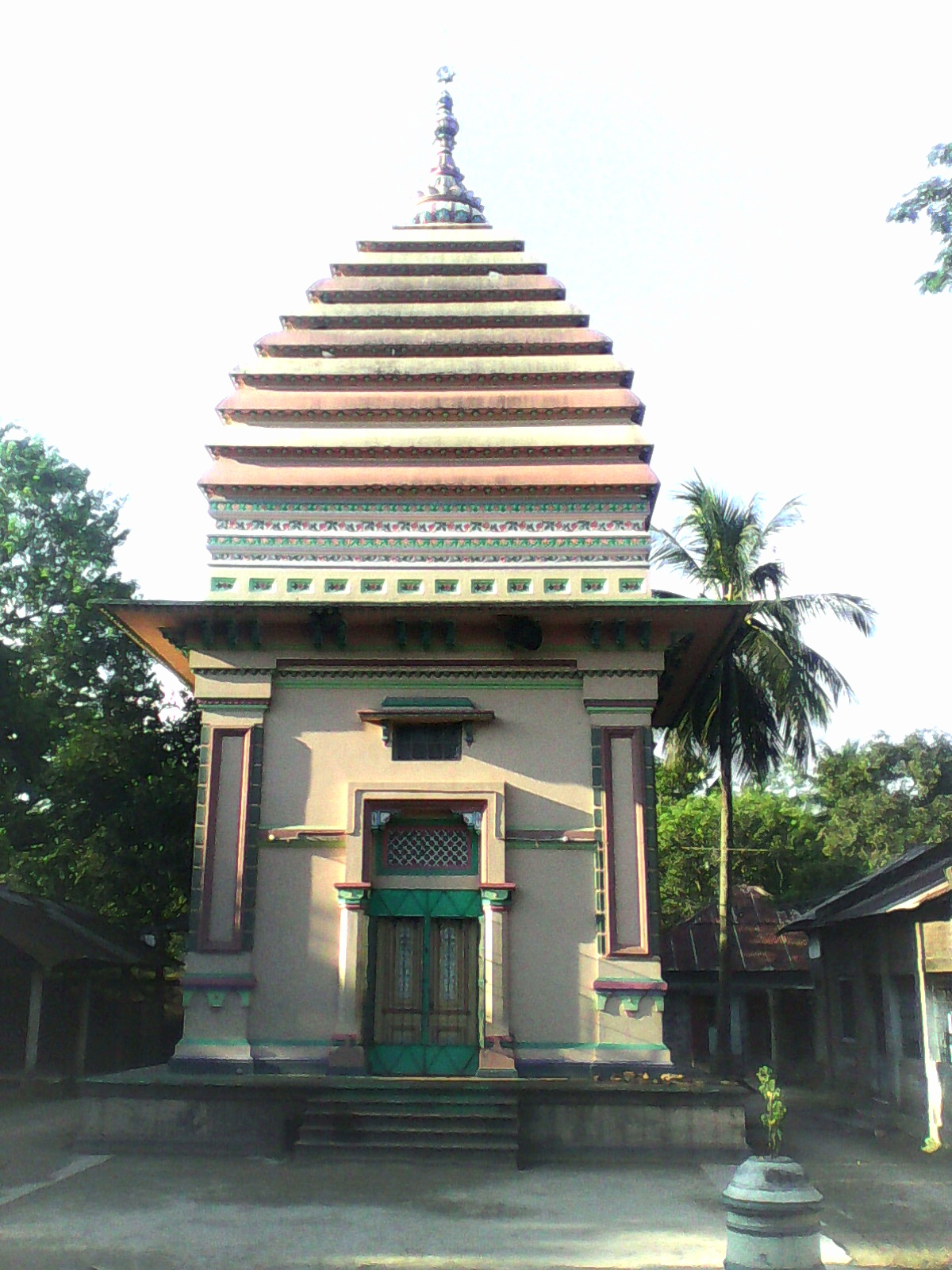 গোপীনাথপুর মন্দির